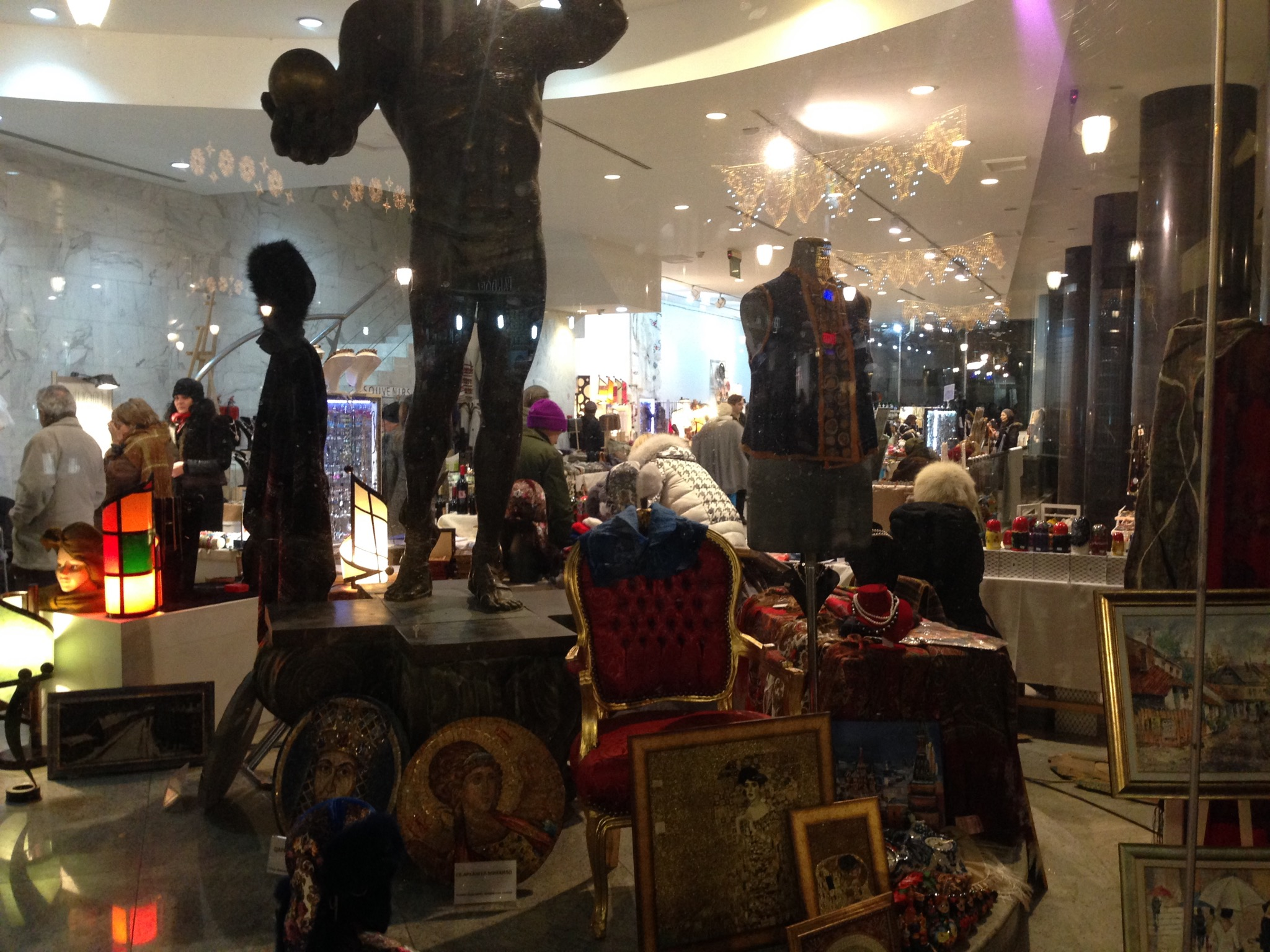 Gallery Progres Belgrade